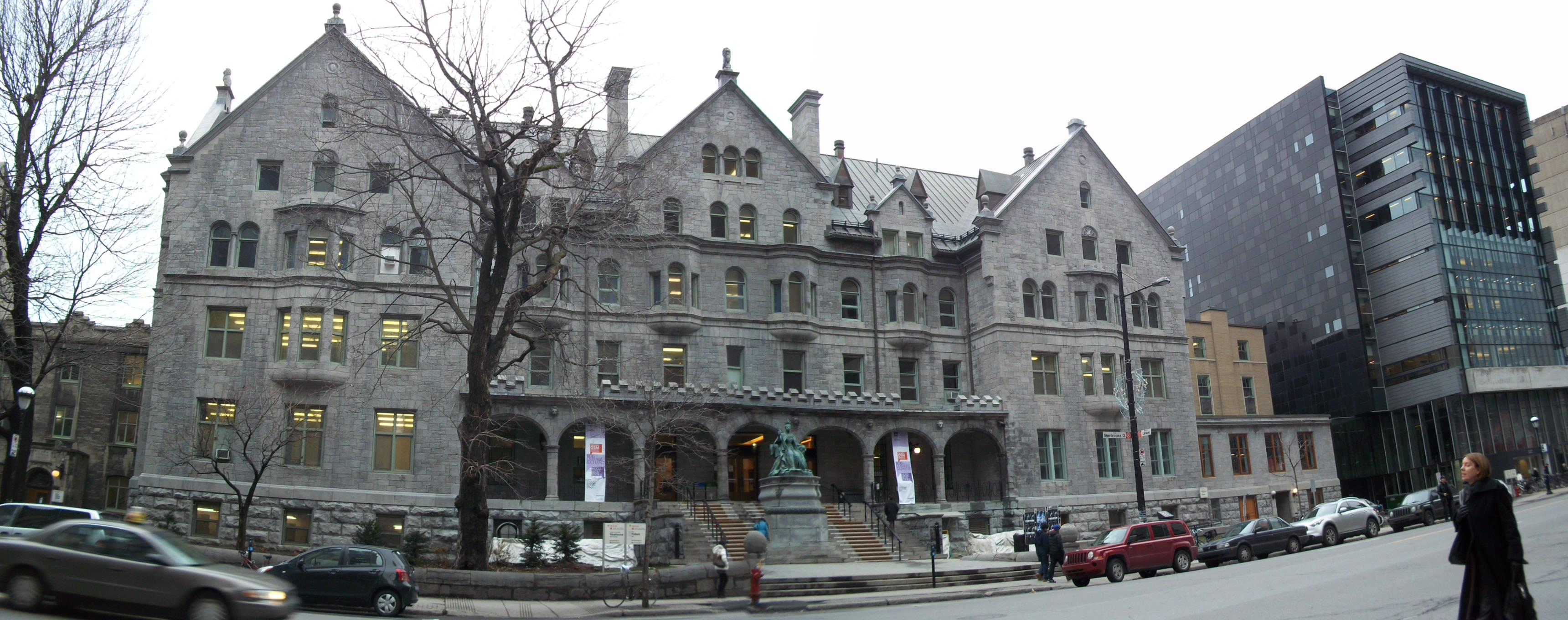 Strathcona Music Building, 555 rue Sherbrooke Ouest, Montreal, Quebec, Canada Right : Elizabeth Wirth Music Building